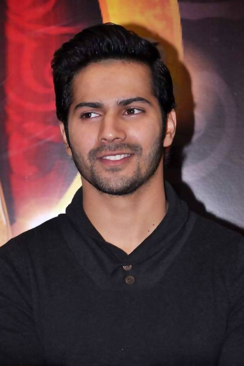 Varun Dhawan at the Stardust Awards press conference in 2013